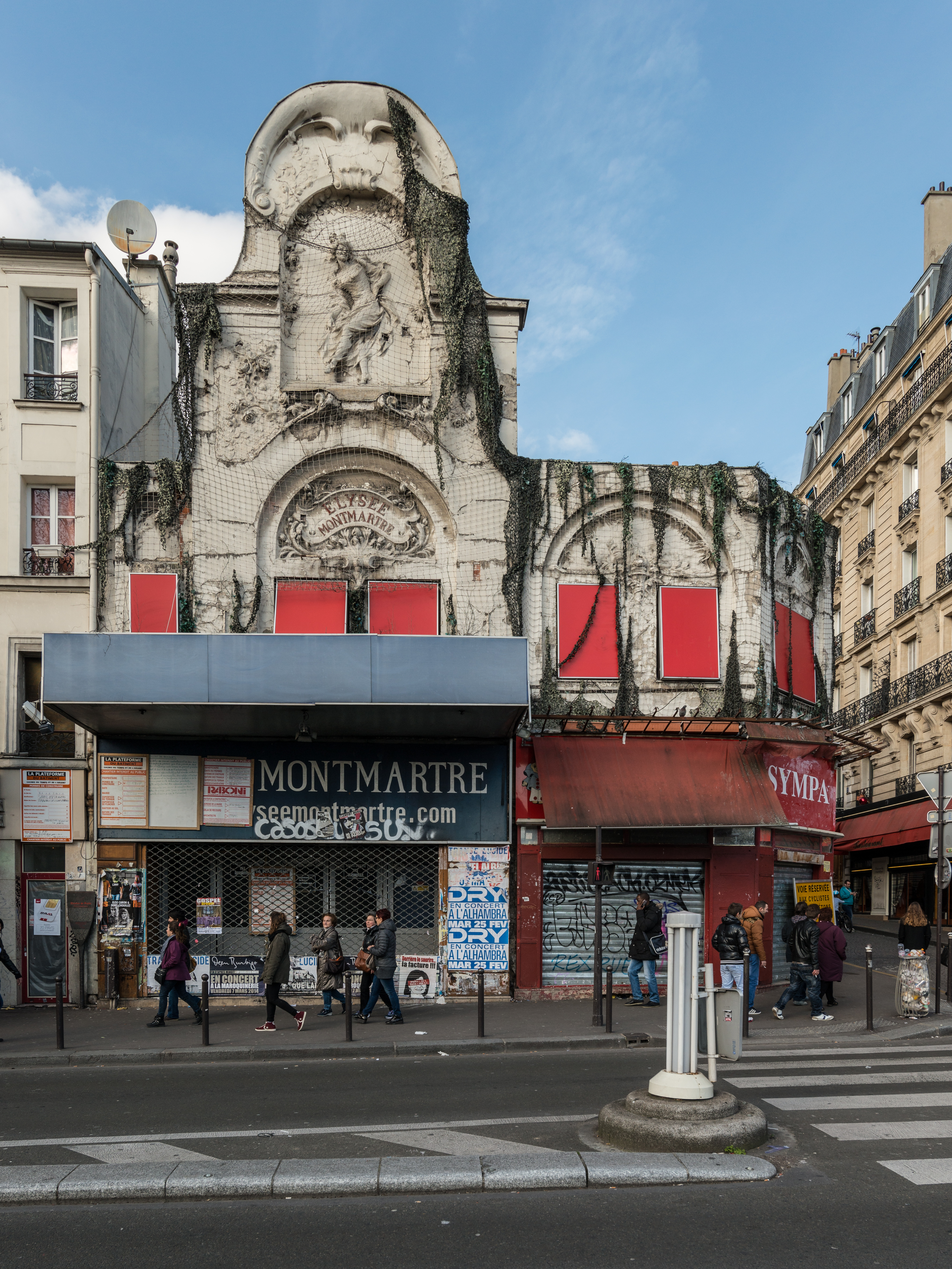 The front facade of the now closed music club Élysée Montmartre Personality rights warningAlthough this work is freely licensed or in the public domain, the person(s) shown may have rights that legally restrict certain re-uses unless those depicted consent to such uses. In these cases, a model release or other evidence of consent could protect you from infringement claims.